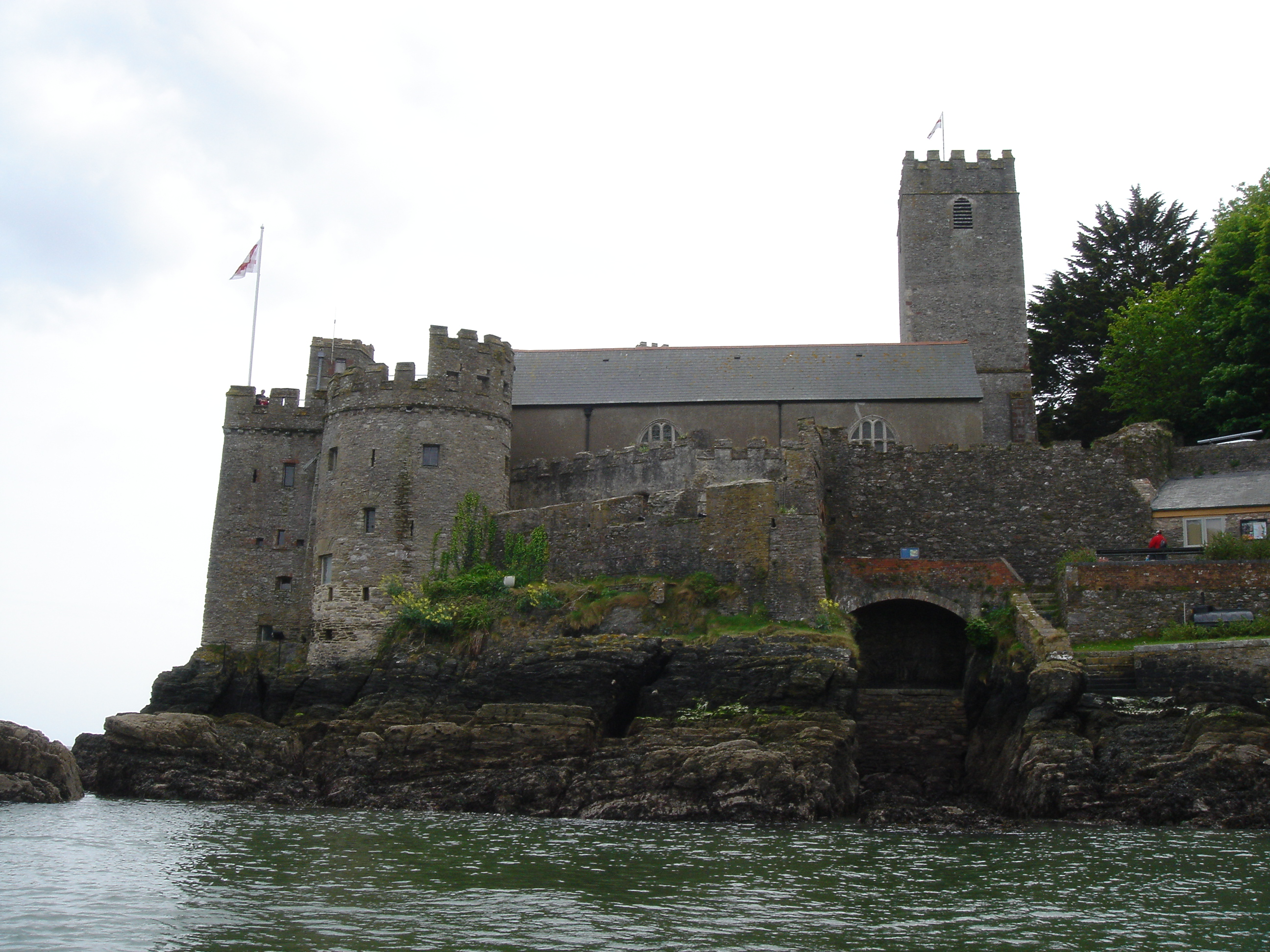 Dartmouth Castle, Dartmouth, Devon, UK - with church